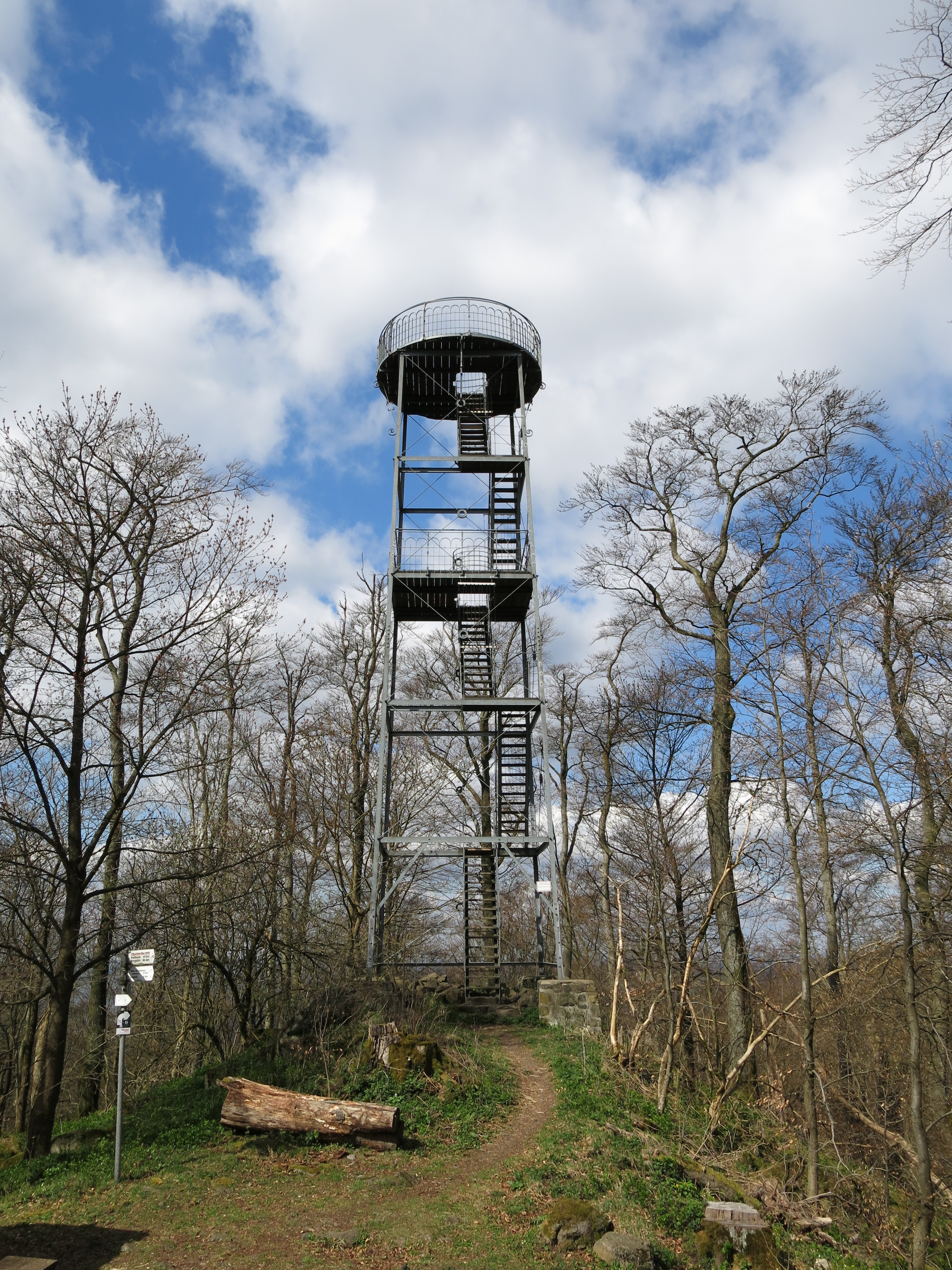 The observation tower on Dreistelzberg